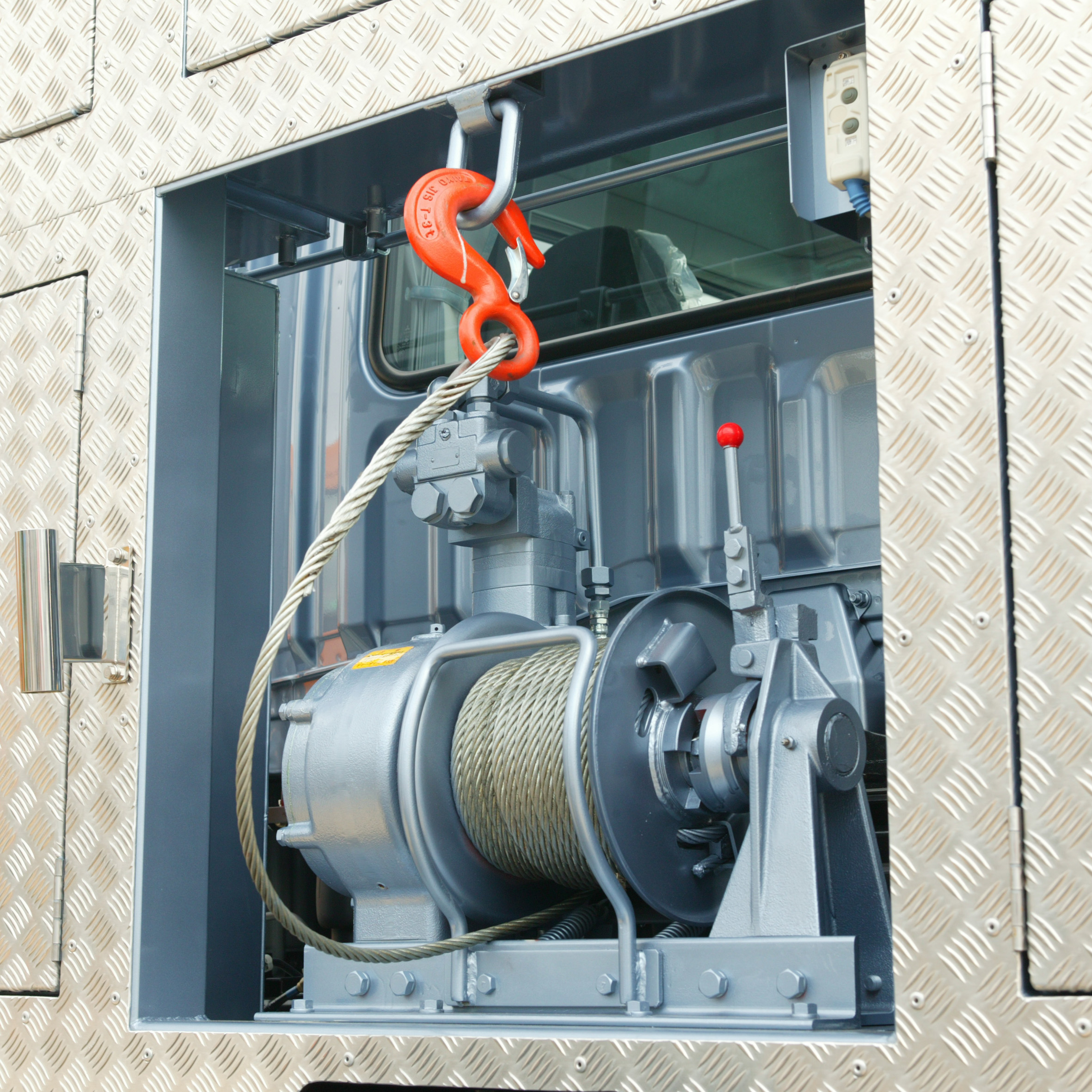 Hydraulic drive winch on a truck.